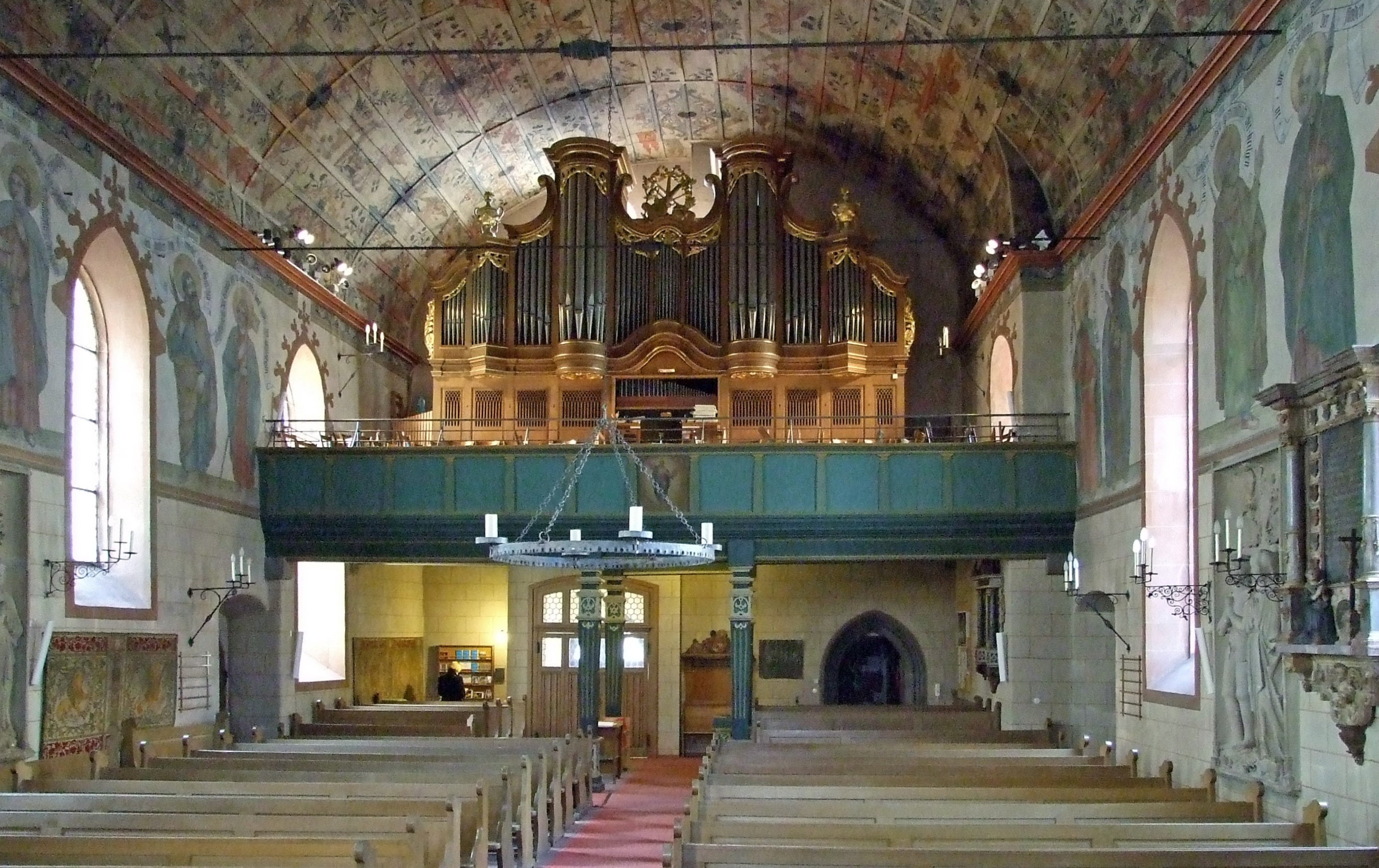 Stadtkirche St. Johann (Protestant) in Kronberg im Taunus, Germany